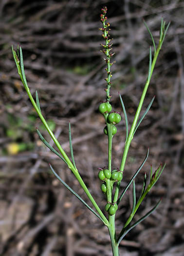 Stillingia linearifolia in Liberty Canyon, Santa Monica Mountains National Recreation Area, California, USA. NPS photo, no copyright.